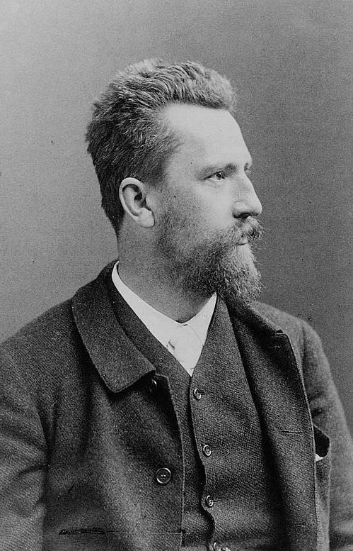 German architect Carl Max Kruse (1854-1952)